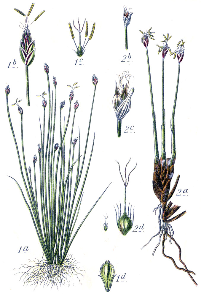 1. Eleocharis acicularis (L.) Roem. & Schult., syn. Cyperus acicularis (L.) With. 2. : Rasensimse, Trichophorum cespitosum (L.) Hartm. Original Caption 1. Nadel-Simse, Cyperus acicularis 2. Rasen-Simse, C. caespitosus